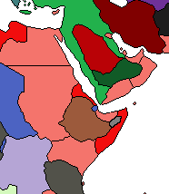 Taken from old colonialism wikipedia map and outlined. Dated around 1900 (shows Italian - although the flag is not correct - North Africa post 1910 and Austro-Hungarian Empire circa WW1). British territories of Canada, Australia, New Zealand and South Africa would later become dominions. Nations involved with imperialism, directly or indirectly, are coloured. Meant to portray the world around the time of WWI. In case anyone wonders, the red flag with the yellow crescent and star is the Rashidi house and their allies. Below them are the Saudis and their allies. Grey countries may be smaller empires (Nepal and Bhutan) or have extended their geopolitical boundaries over unsettled/inhabitated areas (i.e. Latin America such as Chile acquired Easter Island and the Antarctic Peninsula).